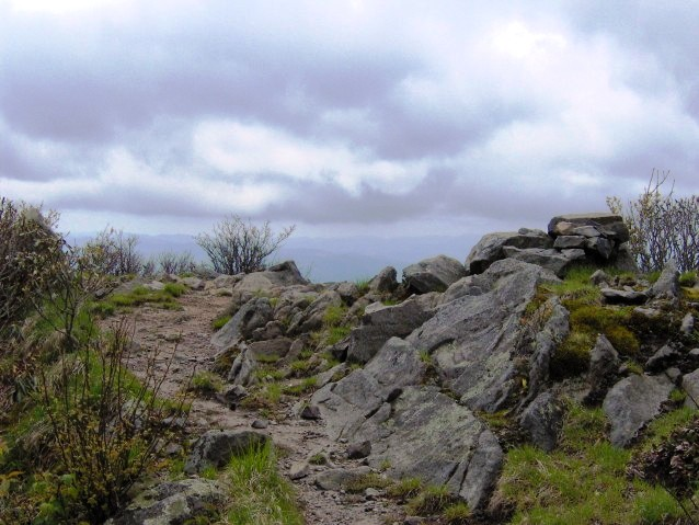 The summit of Rocky Top, (el. 5440 feet/1658 meters), the westernmost of the three peaks atop Thunderhead Mountain, in the Great Smoky Mountains National Park. The Appalachian Trail is on the left.